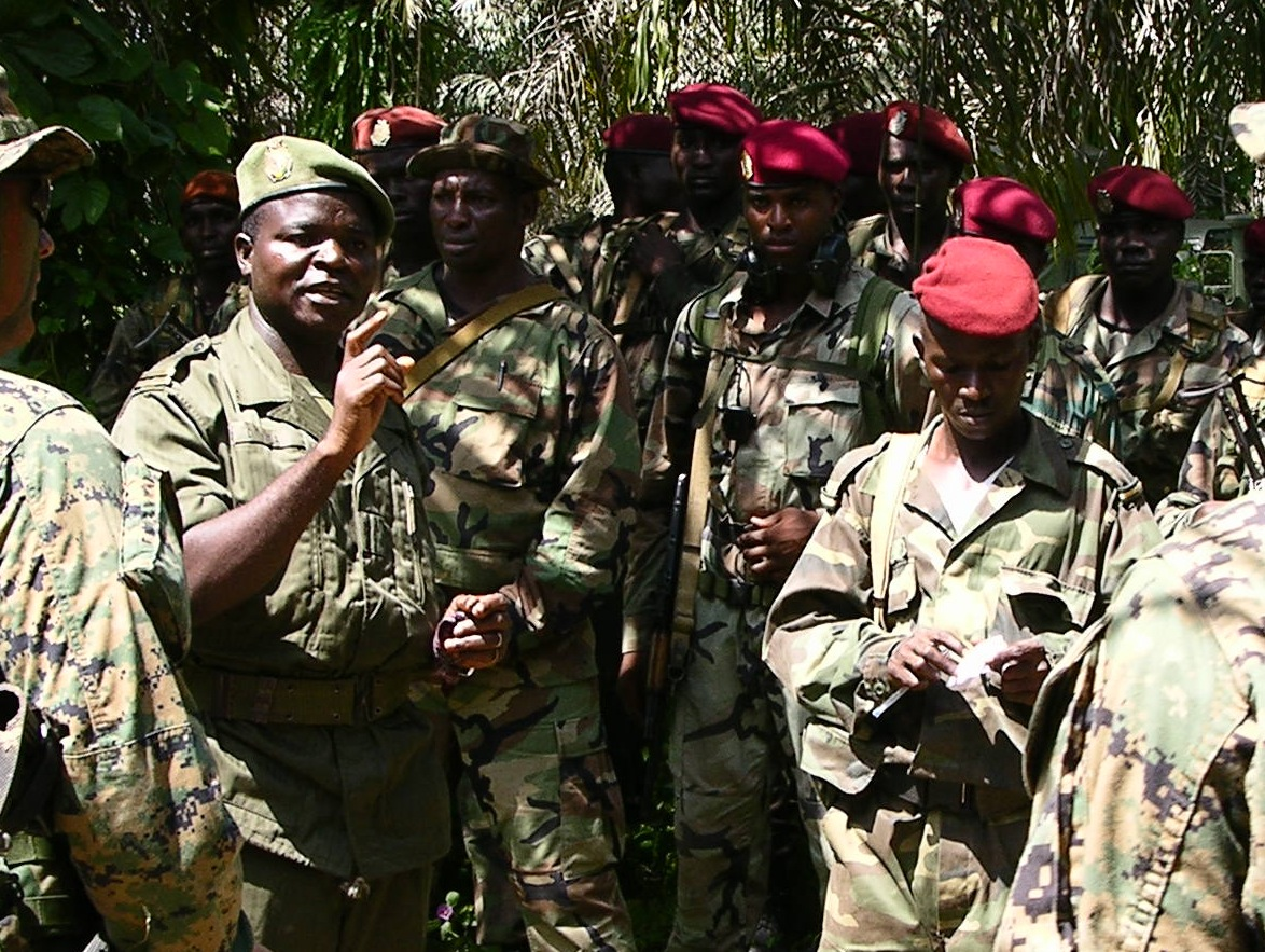 Note: since photo was taken, the Military of Guinea overthrew the government. 1st Lt. David Haba (pictured left) became in 2009 special envoy of the military government to foreign leaders. See [ article], and the use of this original image in the mainstream press Here. Original caption:1st Lt. David Haba of the Guinean army translates for the Marines assigned to 2nd Platoon, Company C, 1st Battalion, 8th Marine Regiment, during the preparation for ambush training at the Benti Training Area here, Oct. 10. Approximately 60 Marines are participating in the Western Africa Training Cruise 06. The cruise involves training exercises in three western Africa countries along with embarked NATO military allies from Italy and Spain. Various exercises are also scheduled to take place in Ghana and Senegal to increase interoperability between those involved as well as enhancing security and stability in the region. Photo by: Gunnery Sgt. Joseph N. Lomangino Photo ID: 2005102734154 Submitting Unit: Marine Forces Europe Photo Date:10/10/2005